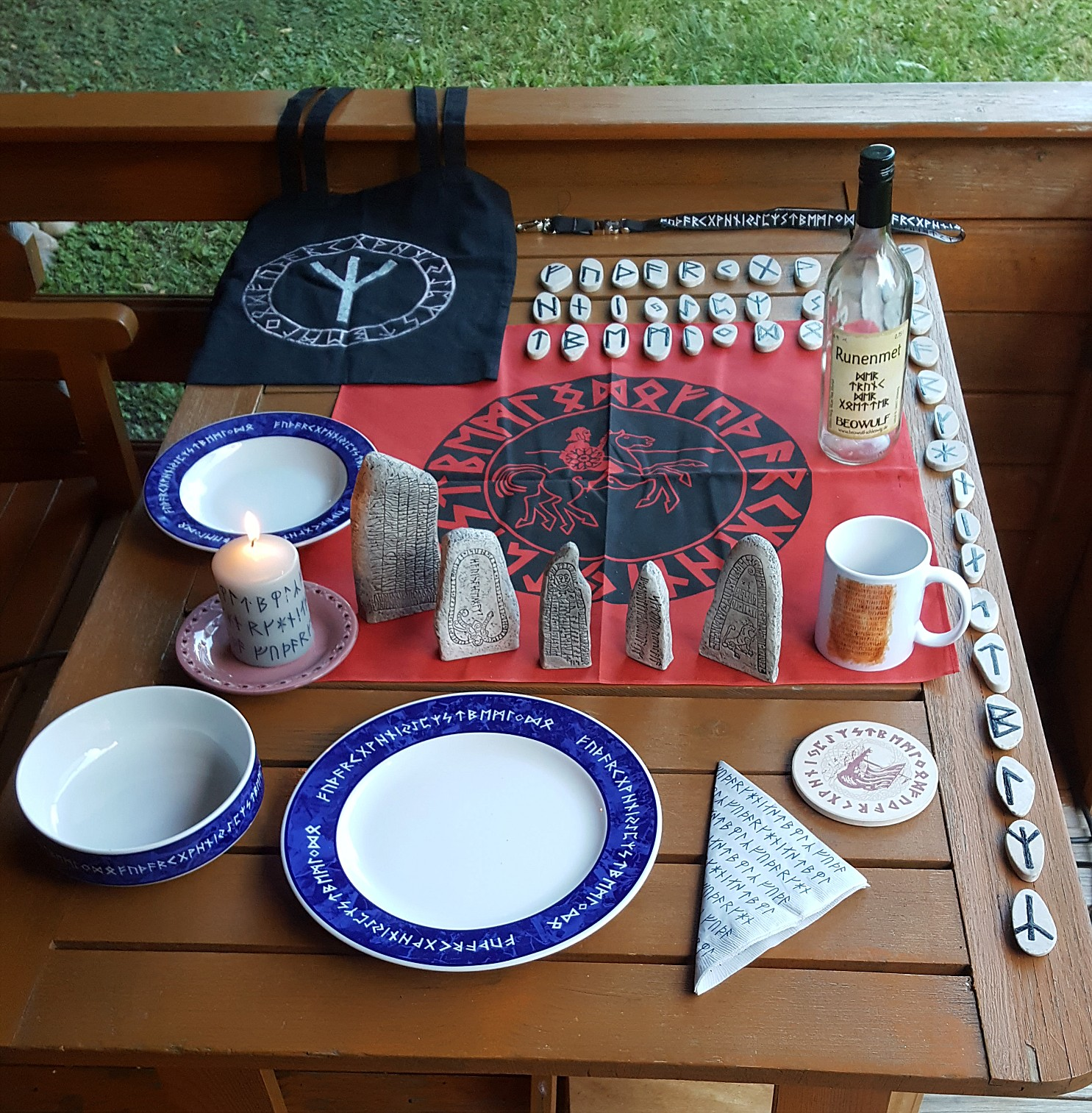 Different items with runes in Straubing, Bavaria. - The picture was taken at the September equinox on 22nd September 2017.